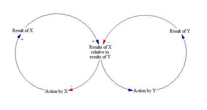 This diagram shows escalation archetype in the form of two balancing loops.